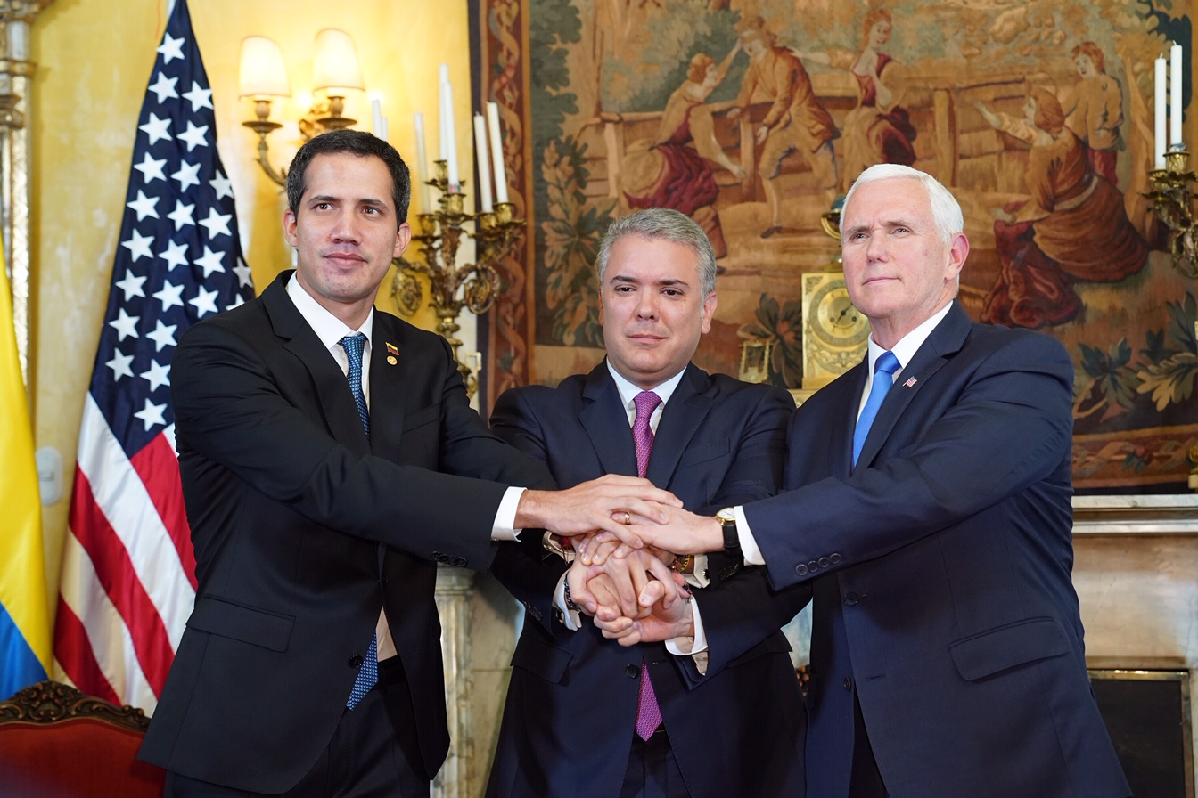 Vice President Mike Pence, President Juan Guaido of Venezuela, and President Iván Duque Márquez of Colombia, Monday February 25, 2019 (Official White House Photo by D. Myles Cullen)